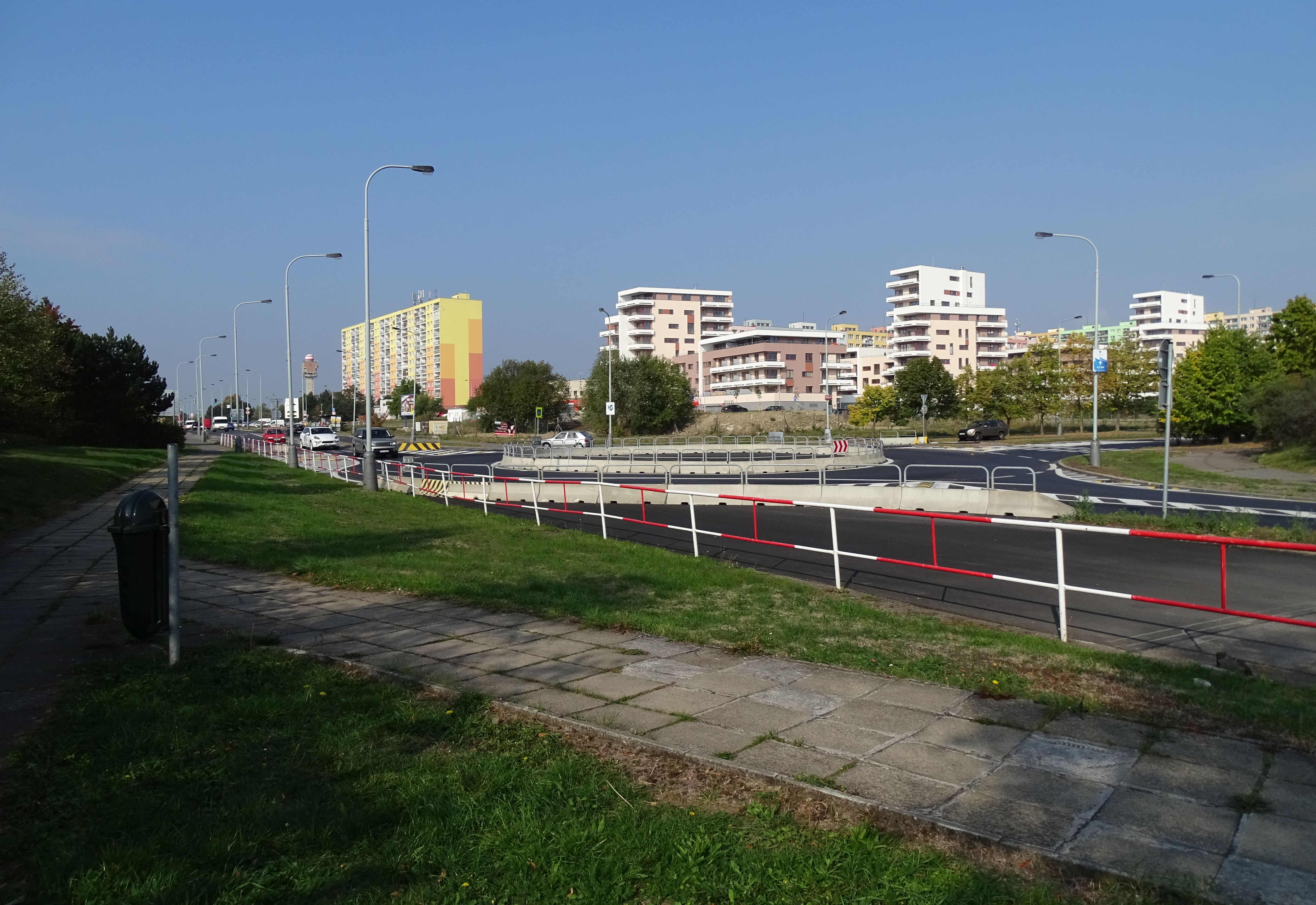 Prague-Libuš and Kamýk, Czech Republic. Meteorologická, Generála Šišky, Novodvorská street.